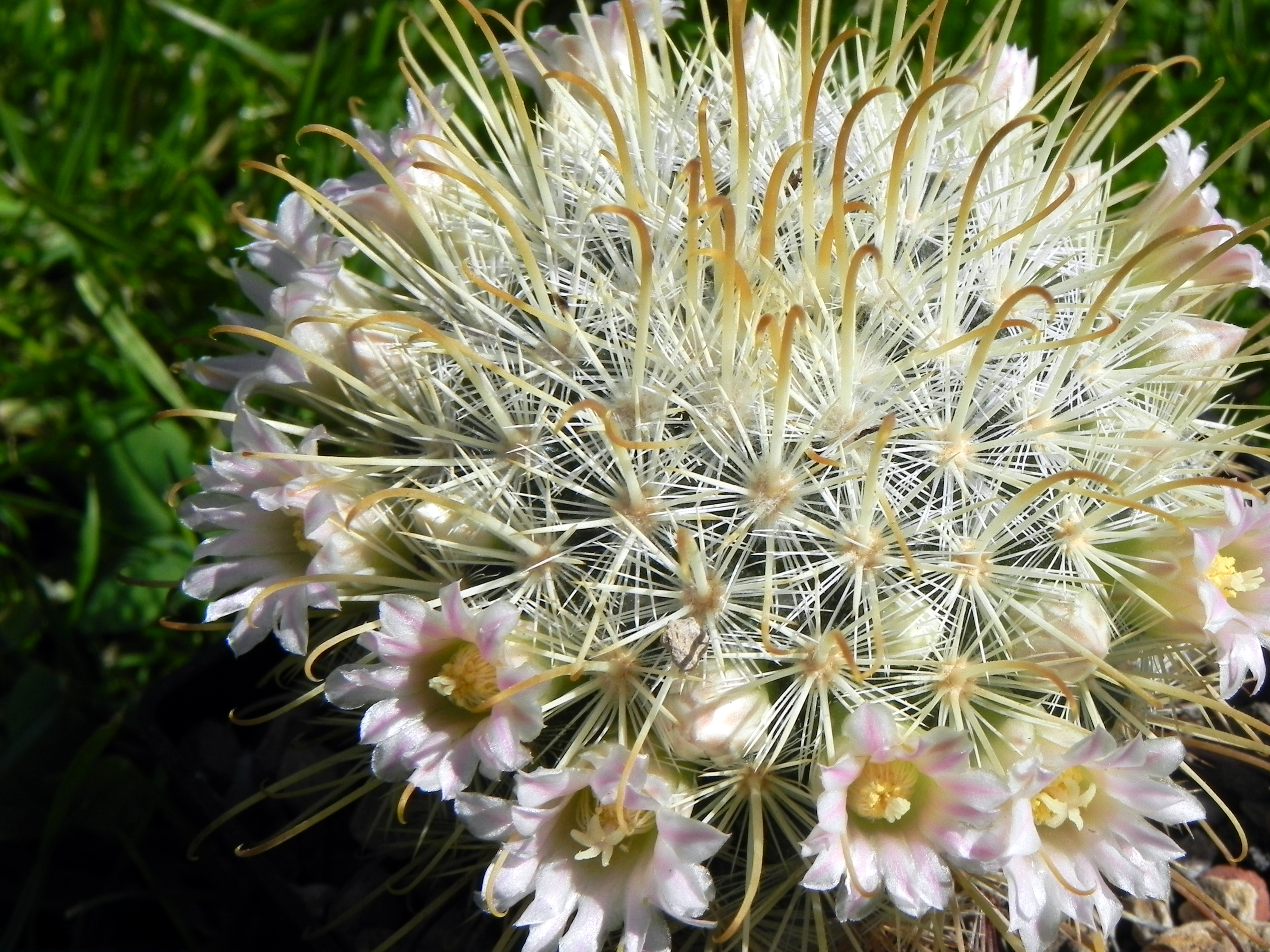 Photo of the cactus Mammillaria moelleriana Boed., taken from a plant in cultur, with flowers. Synonym name is Mammillaria cowperae Shurly (1959).